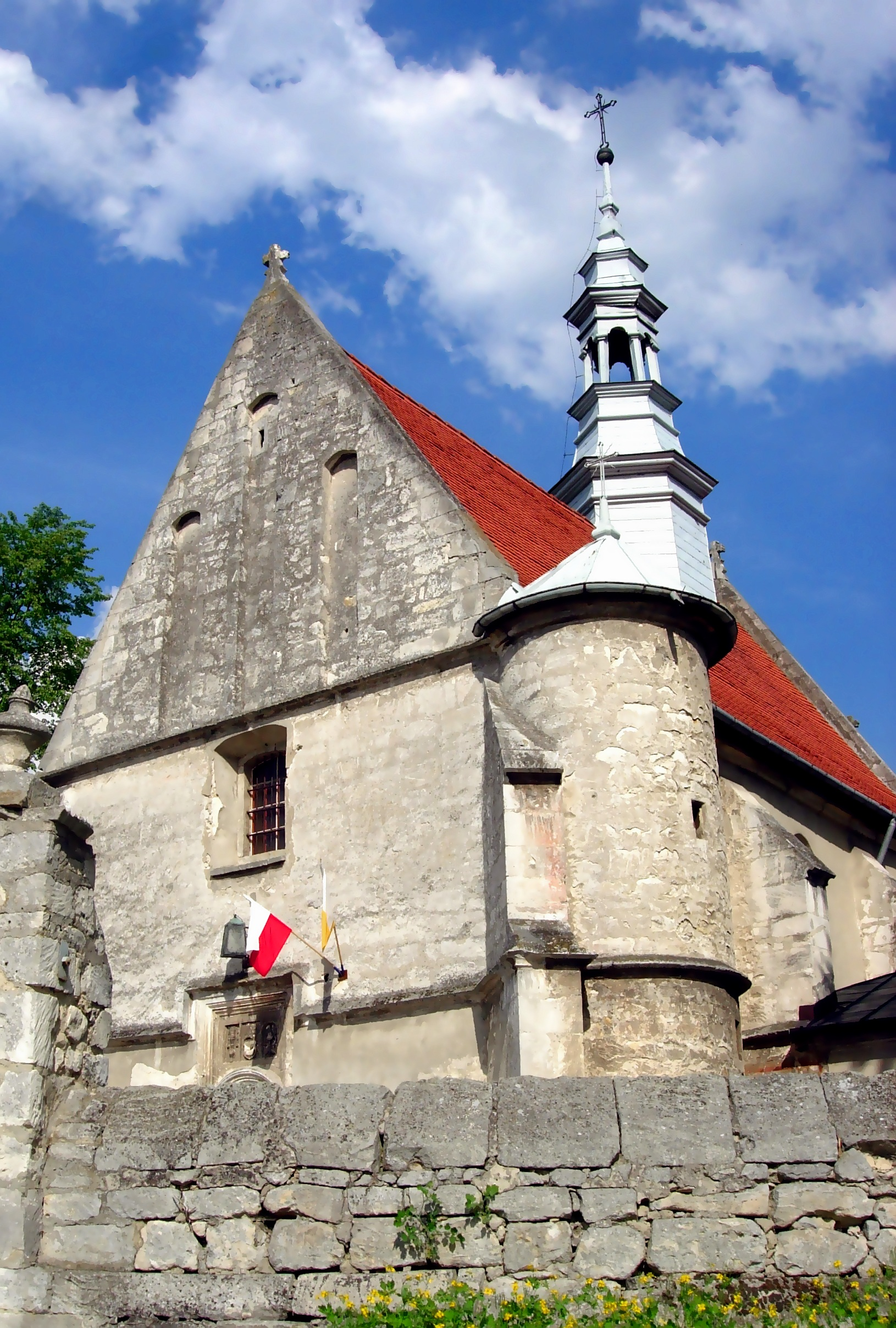 Church in Dobrowoda, Poland